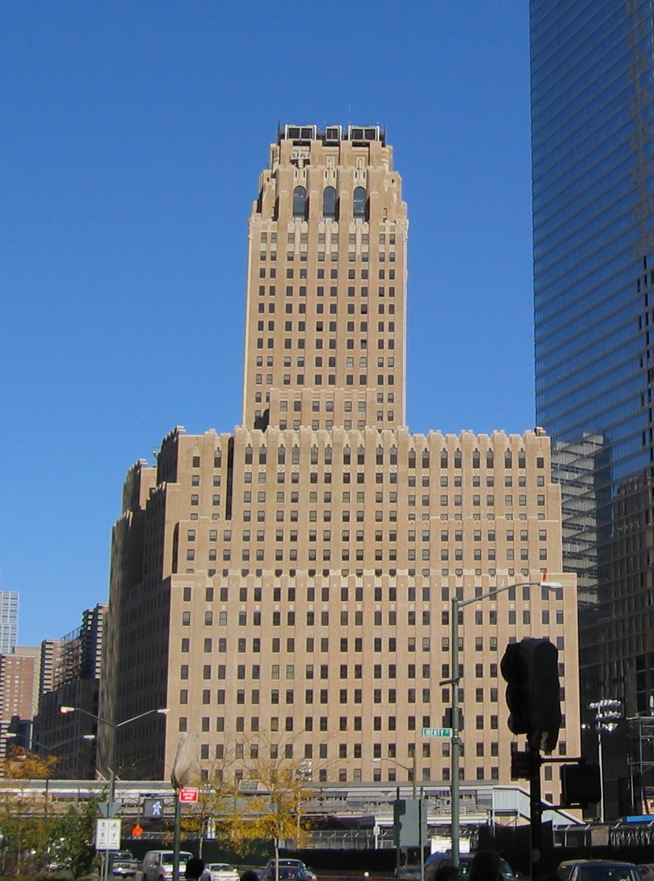 Verizon Building in New York City